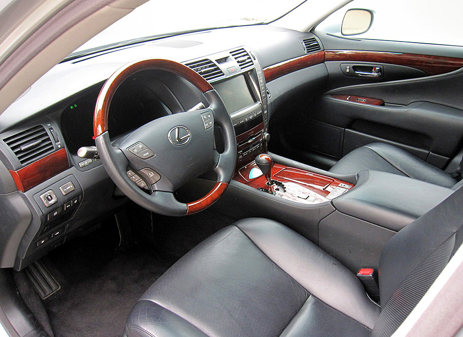 Lexus LS interior